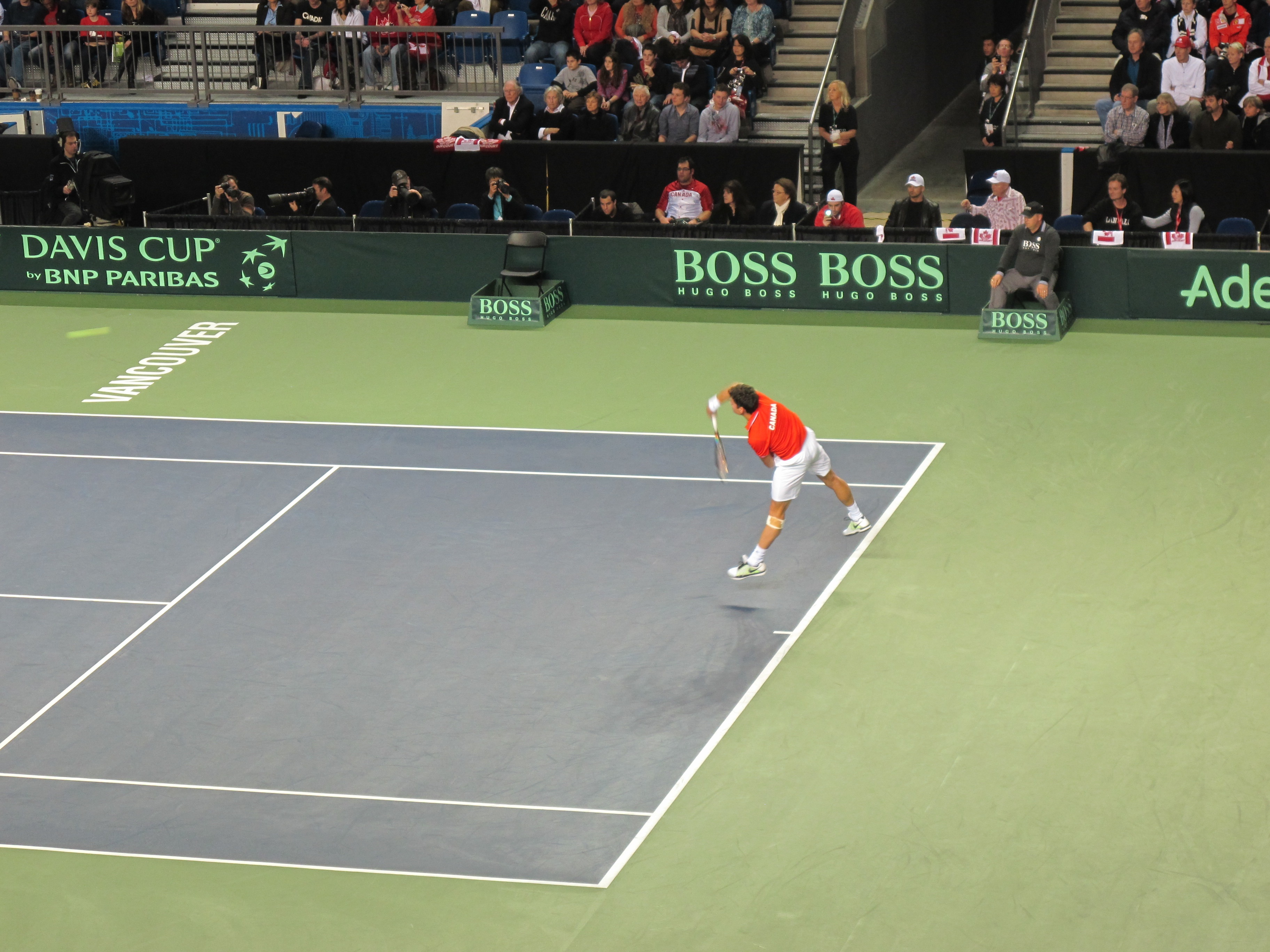 Milos Raonic at the 2012 Davis Cup in Vancouver, British Columbia.